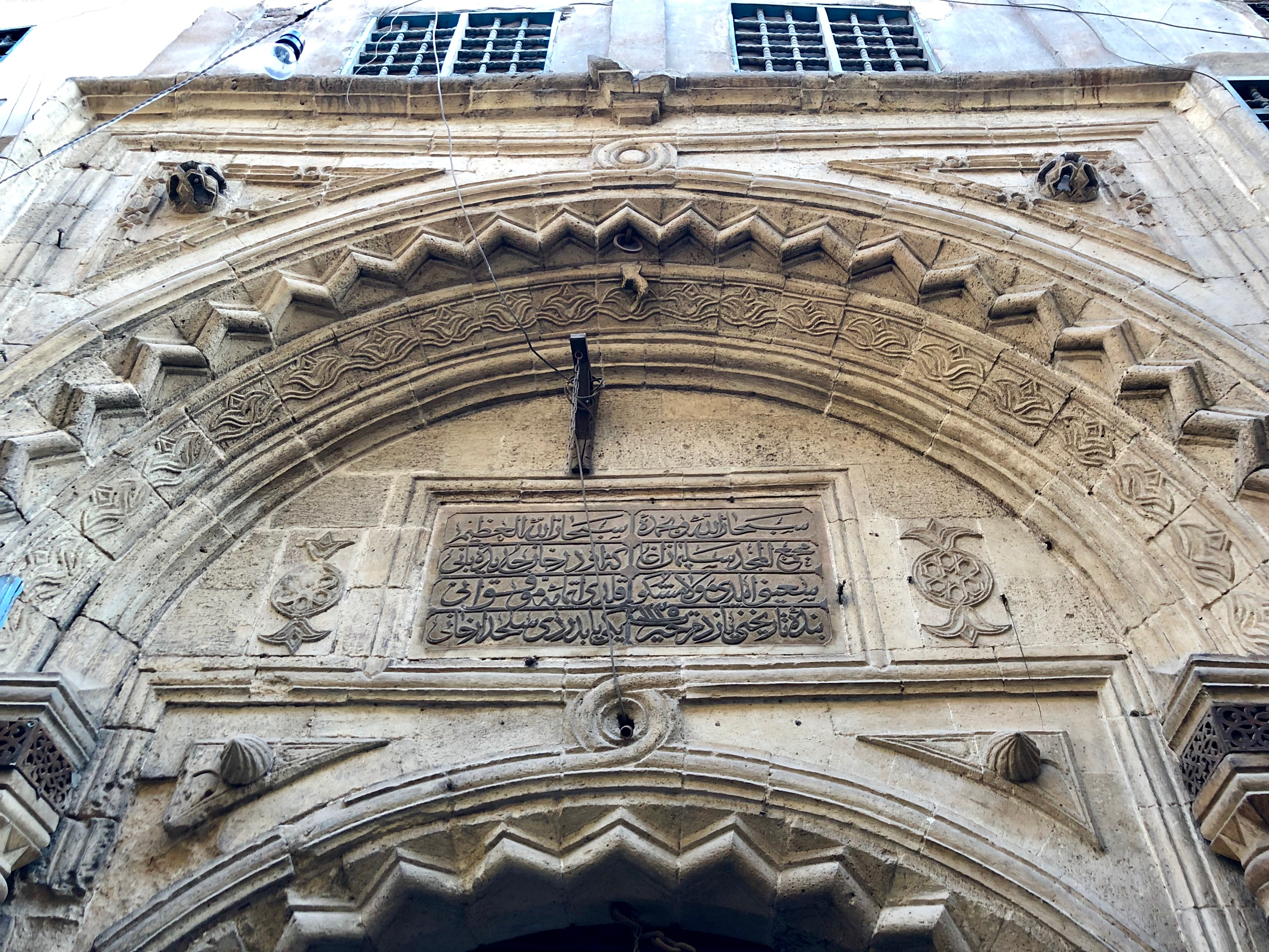 Cairo (al-Qahira), capital of Egypt